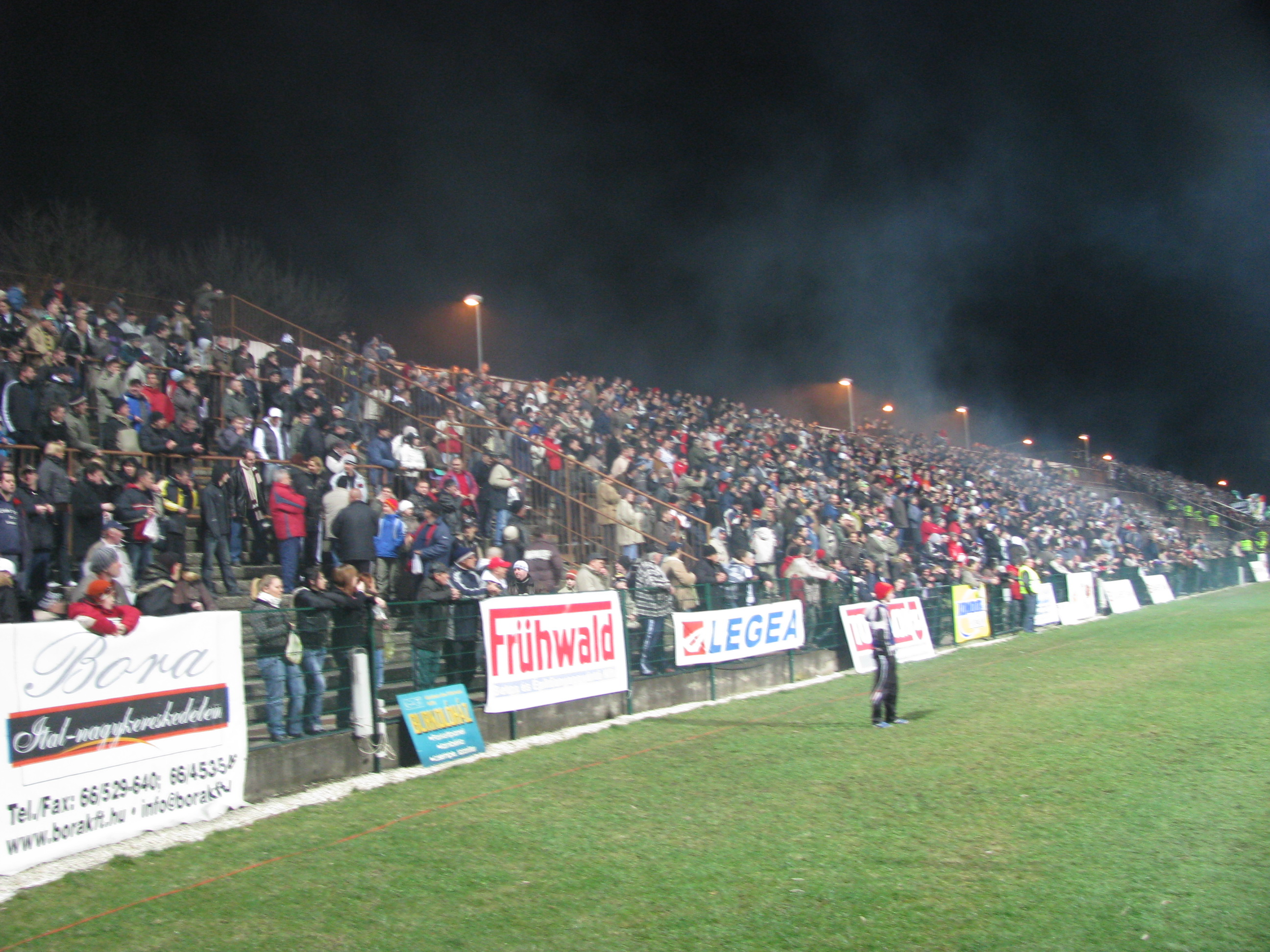 The main tribun of the Stadium Kórház utcai during the Békéscsaba 1912 Előre SE - FTC footbaal match in Békéscsaba, 2009.